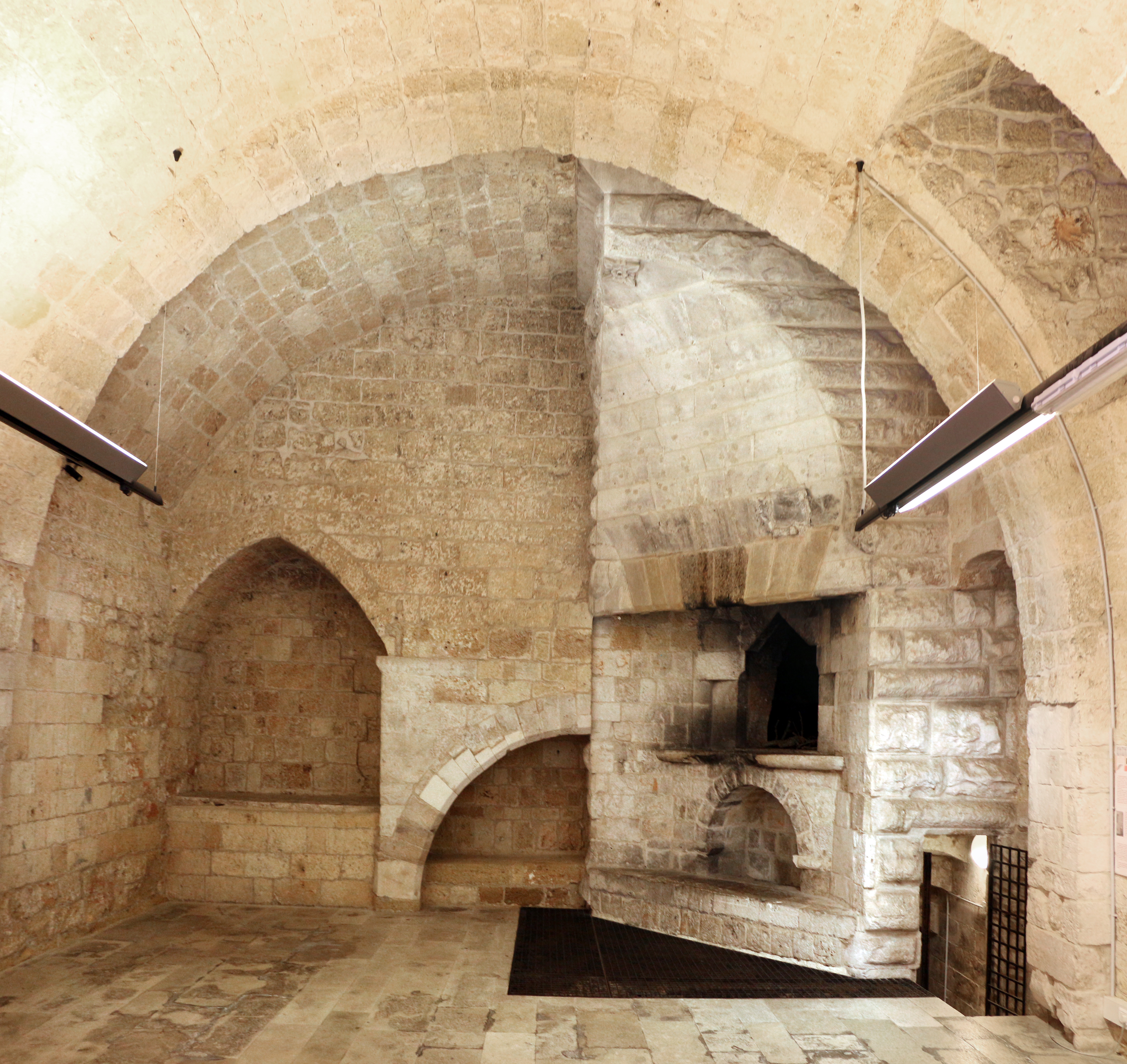 Castello normanno-svevo (Gioia del Colle) - Interior